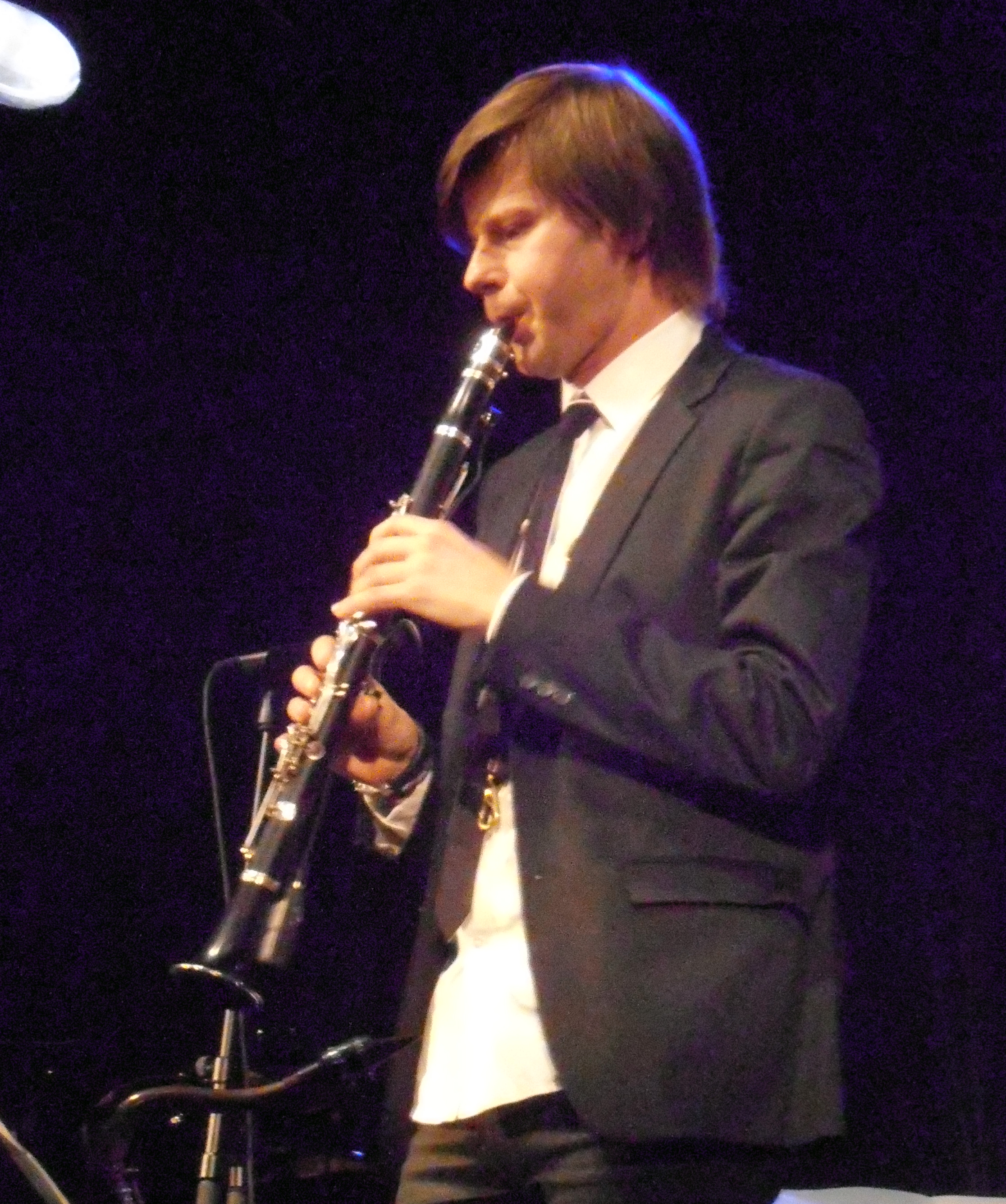 Magnus Lindgren, Treibhaus Innsbruck 2012